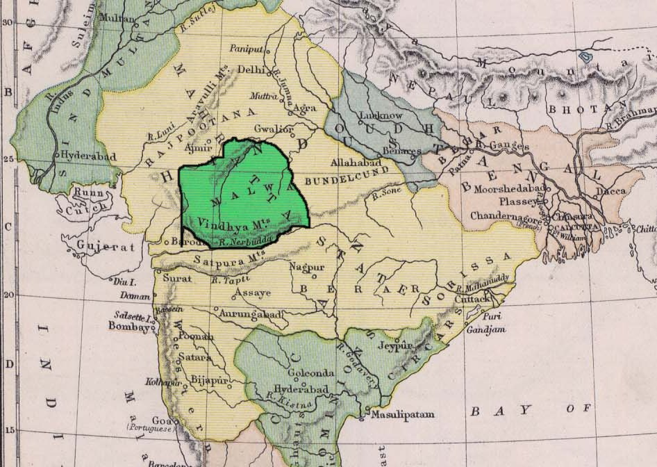 Courtesy of the University of Texas Libraries, The University of Texas at Austin. [1] Originally scanned from The Public Schools Historical Atlas edited by C. Colbeck. Longmans, Green, and Co. 1905, which due to its age is in the public domain. Cropping and shading added by User:Deeptrivia, whose contributions to Wikipedia are by default licensed under the GFDL.